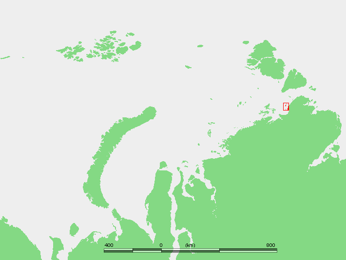 Nordensjelda Islands